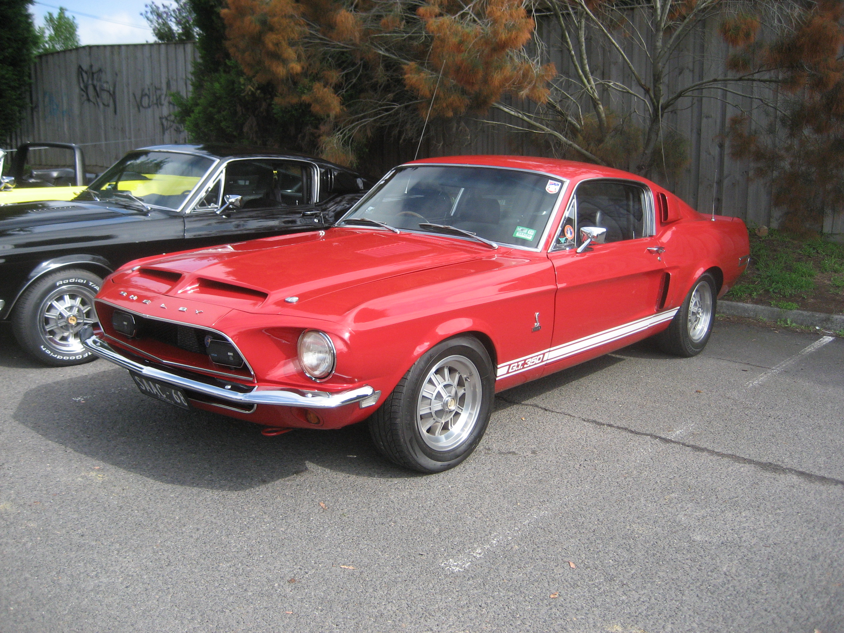 Candyapple Red